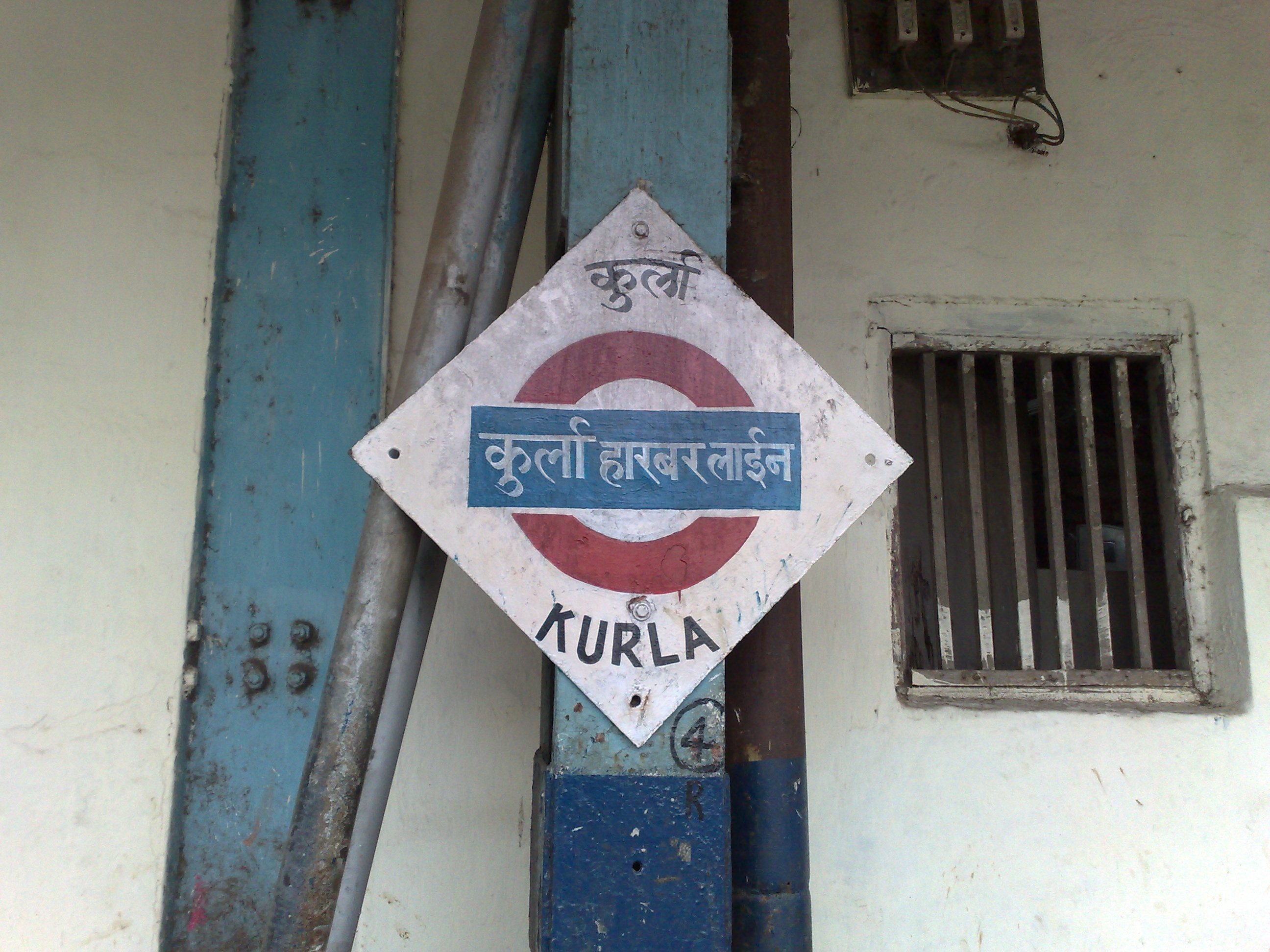 Kurla Harbour Line platformboard